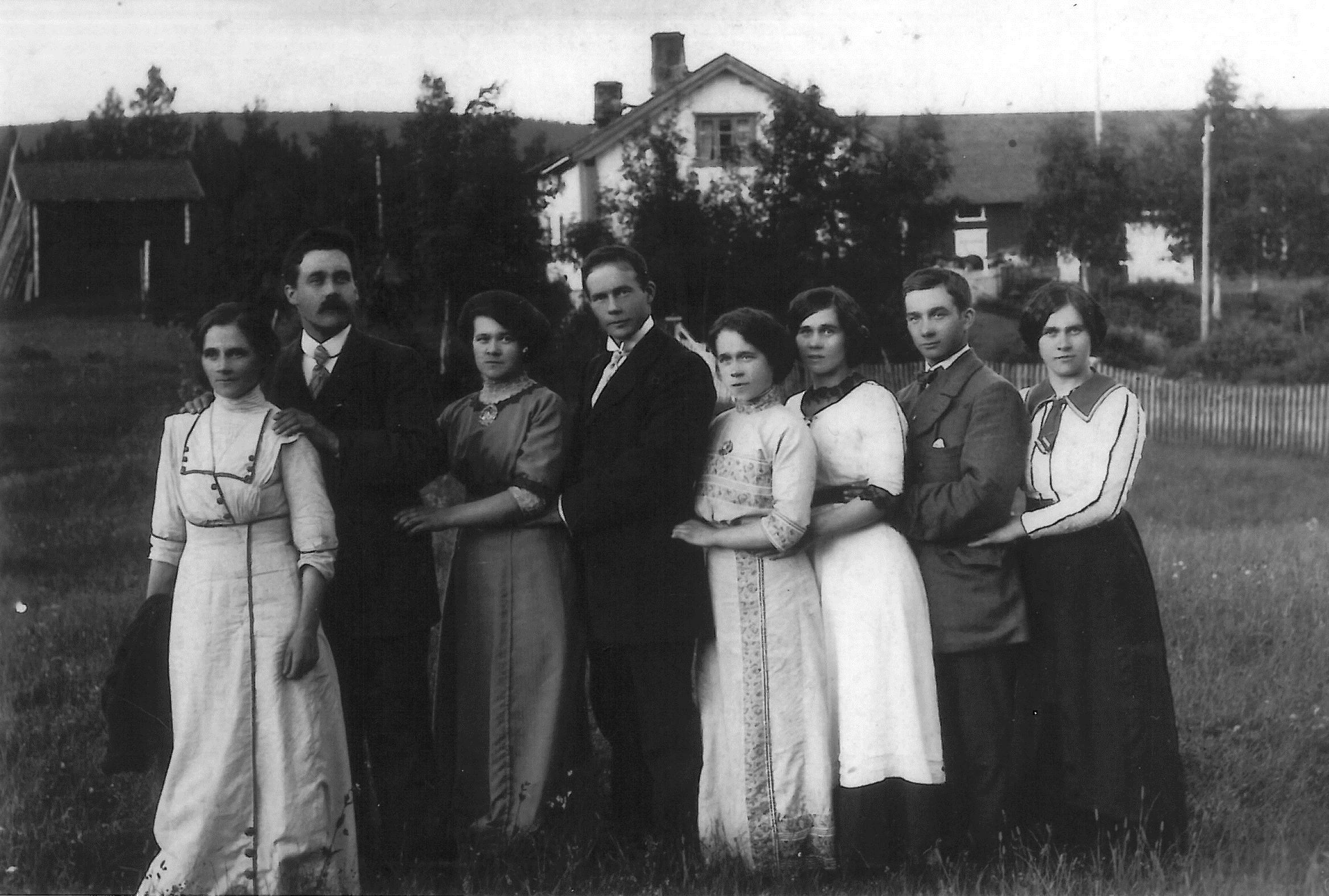 Adult children at the farm Løvbekksetra ca 1916; sons and daughters of Gjertrud (1853-1923) and Ola Haugen (1853-1938). Left to right: Anne (1876-1952), teacher and wife of the author Halvor Floden; Ole Haugen-Flermoe (1878-1956), author; Gunhild Skaret (1884-1981), teacher; Morten Haugen (1882-1970), future farmer; Ingjerd Kolstad (1886-1968) teacher; Lise Telle (1888-1980); Olav Hougen (1890-1943), editor and mayor Steinkjer; Oddveig Haugen (1894-1962) book shop manager Steinkjer